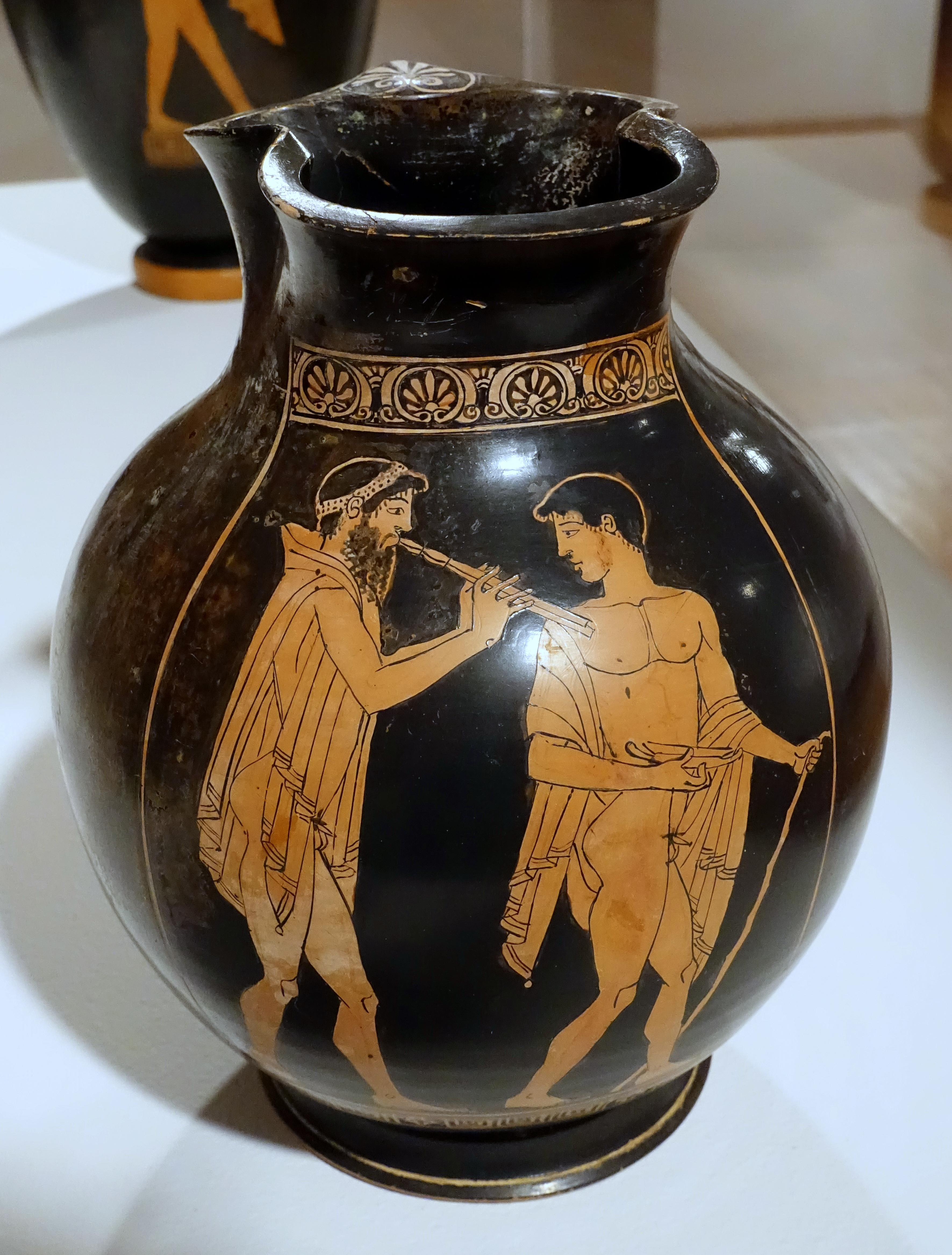 Exhibit in the Krannert Art Museum, University of Illinois at Urbana-Champaign - Urbana-Champaign, Illinois, USA. This work is old enough so that it is in the public domain.